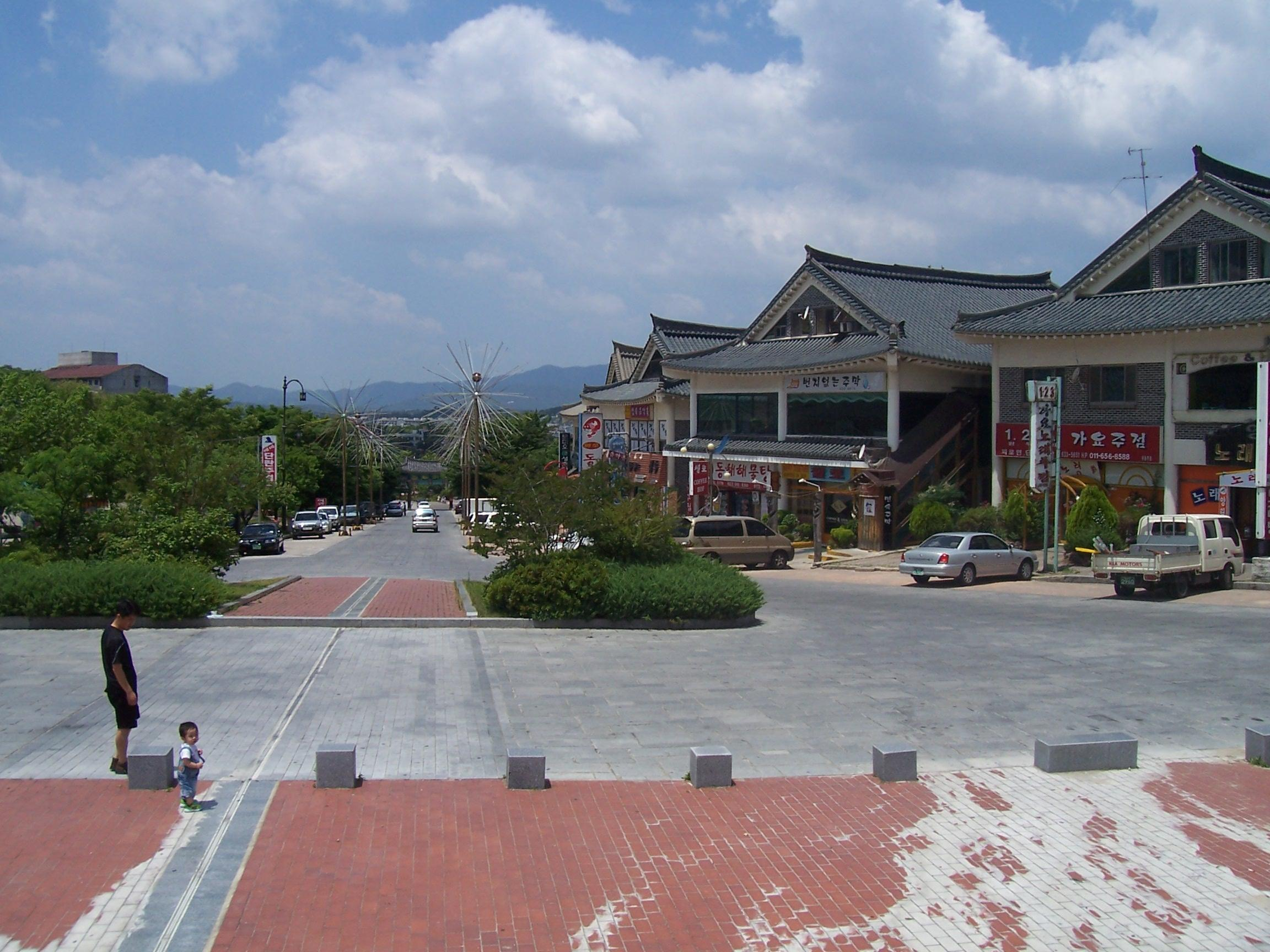 My own picture